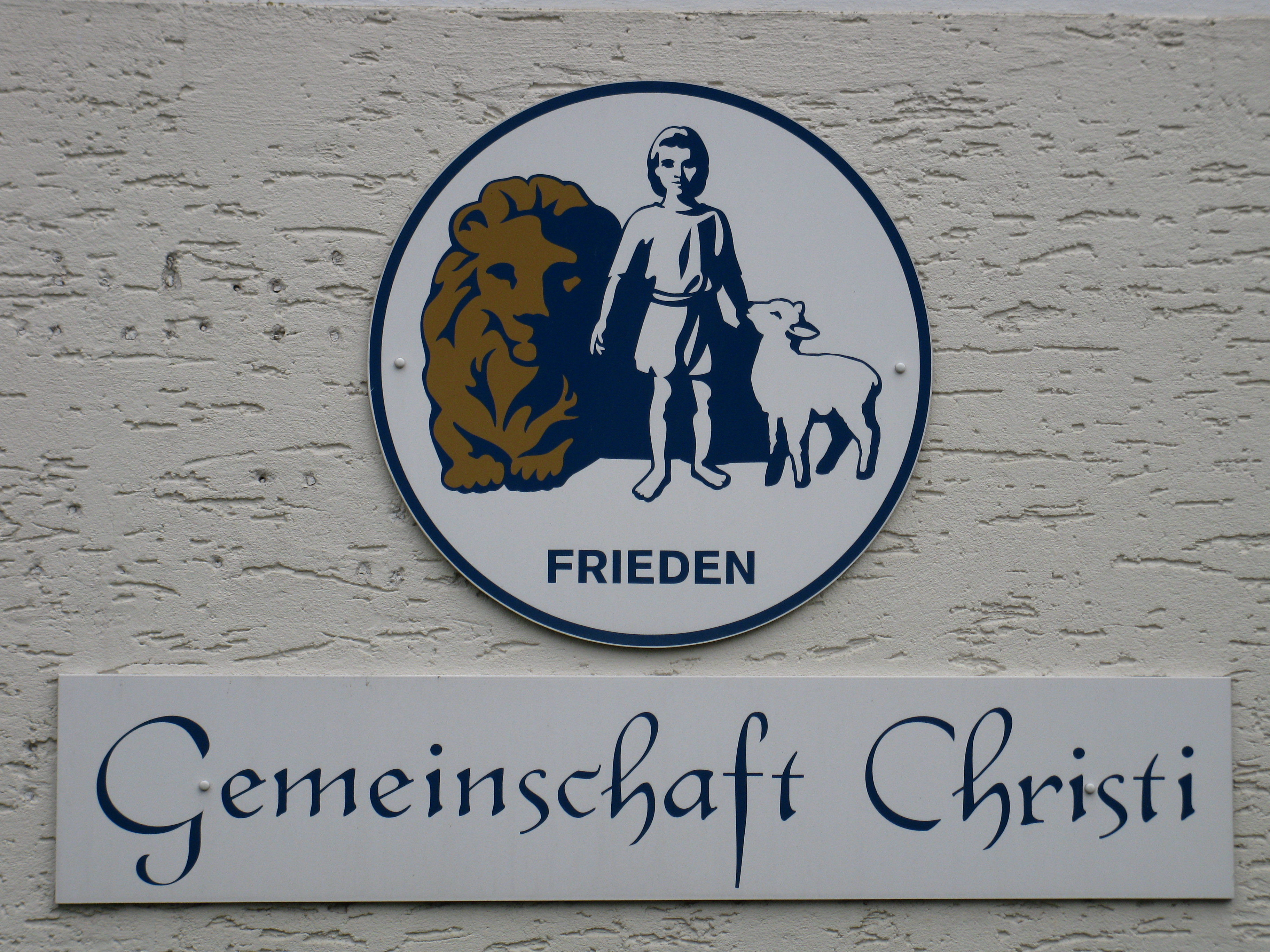 Community of Christ